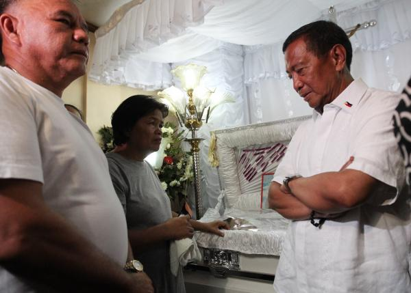 Vice President Jejomar C. Binay condoles with Julita Laude, mother of Jennifer Laude, at Jennifer’s wake in Olongapo.